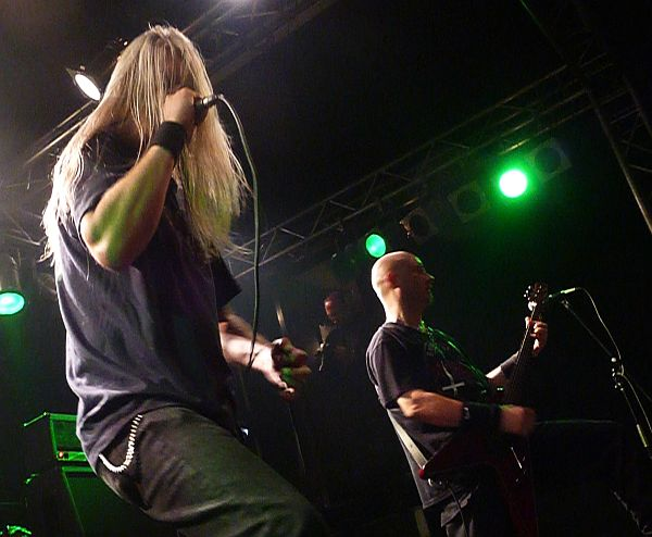 Martin van Drunen and Stephen Gebédi during a Hail of Bullets gig in Berlin 2009